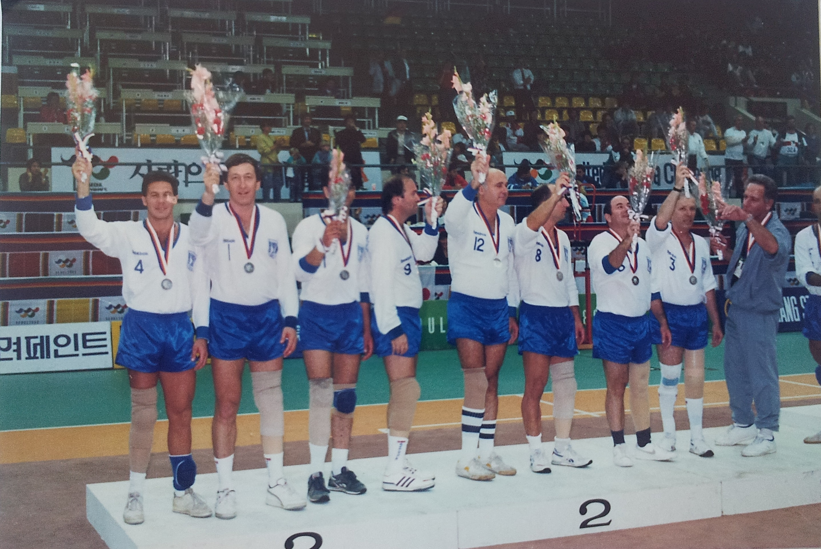 Israel's valleyball team wins silver medal